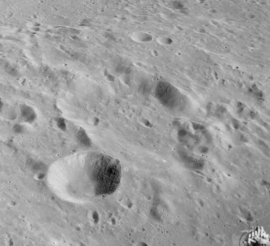 Hypatia crater at center, on the moon. The prominent crater in lower left is Hypatia A.